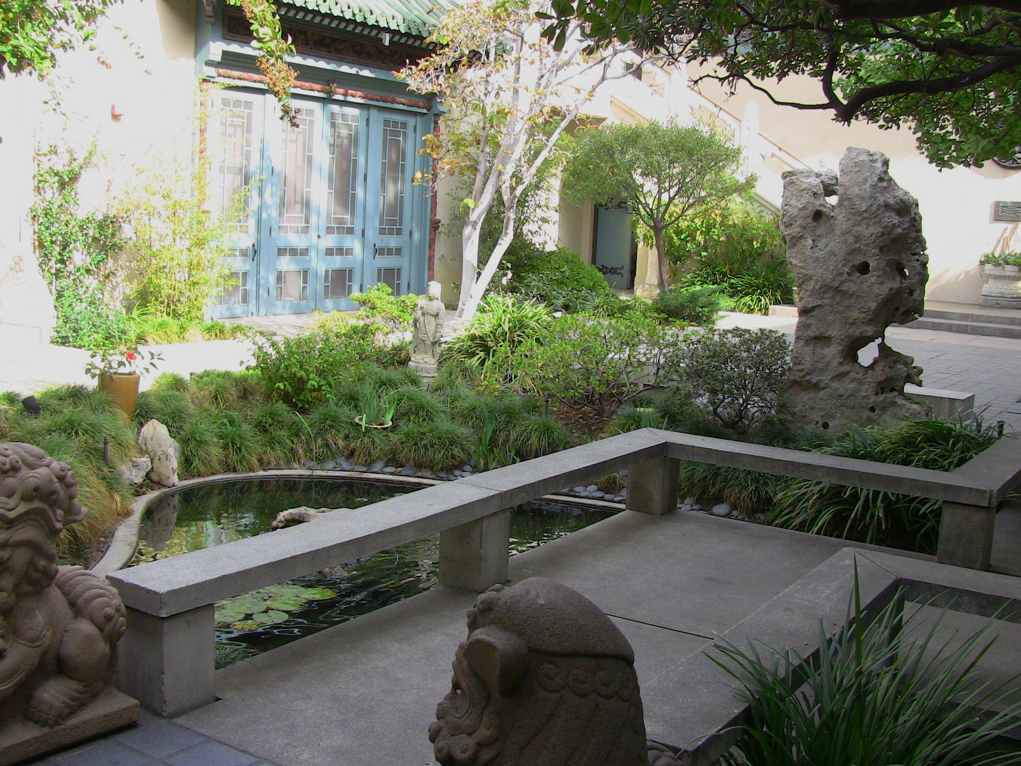 Pacific Asia Museum, central courtyard with a garden, a small pool, and decorative carvings